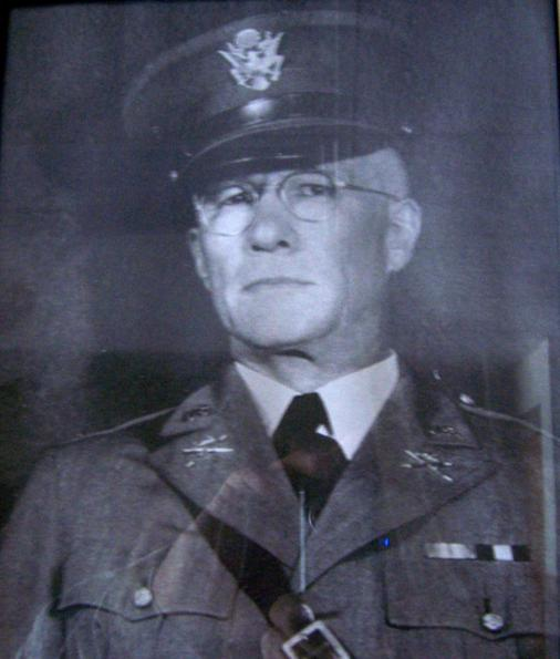 Colonel Ebenezer L. Compere of the 142nd Field Artillery Regiment